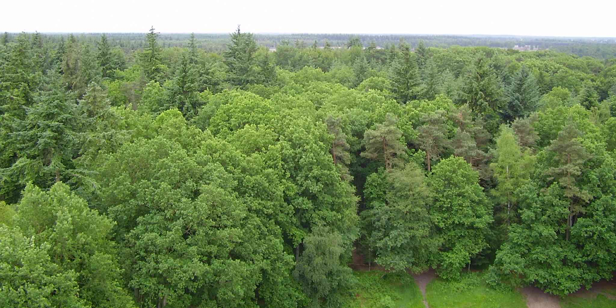 View to the south from the lookout tower on the Poolshoogte.